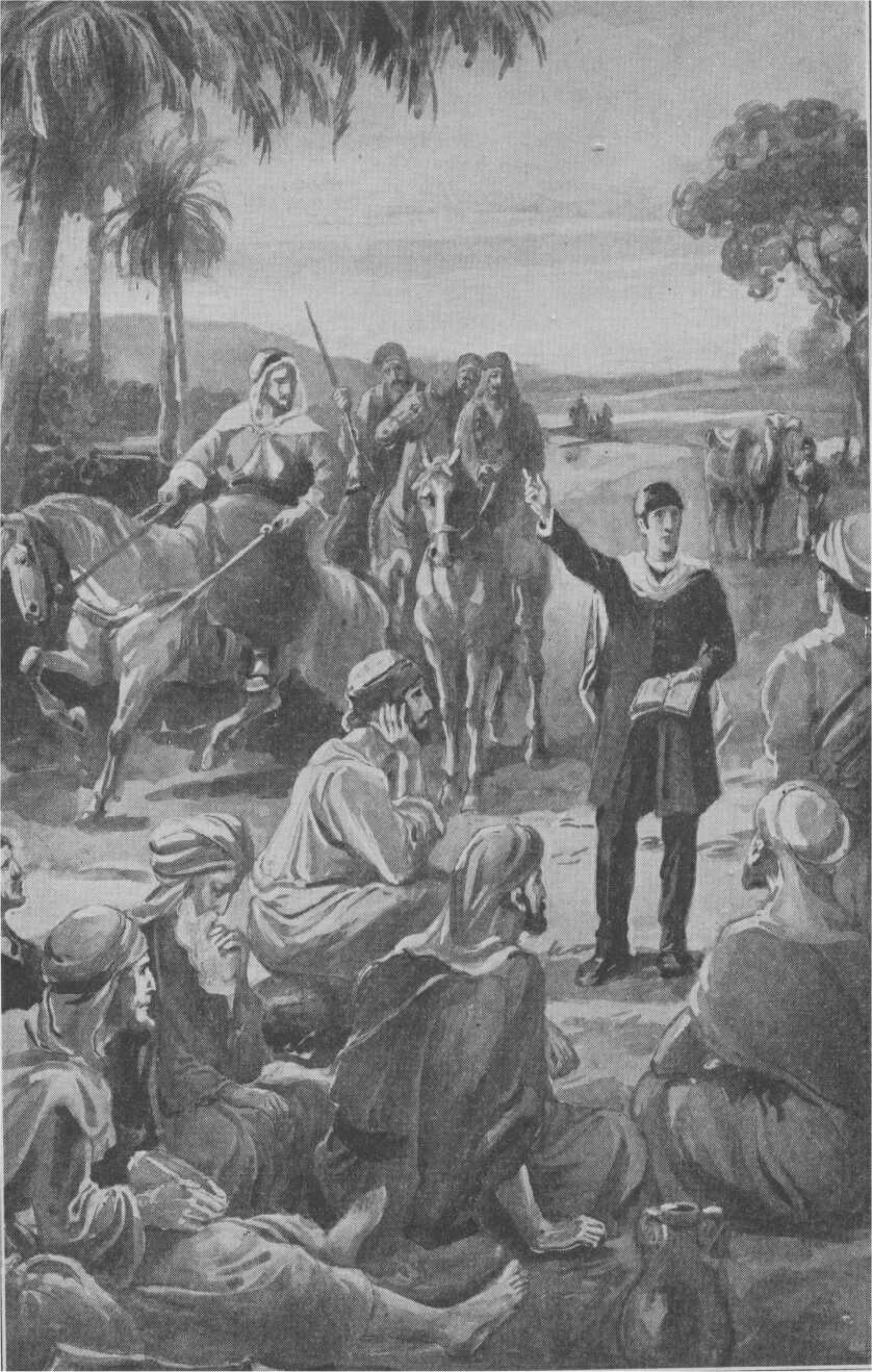 Joseph Wolff (1795-1862) preaching in Palestine